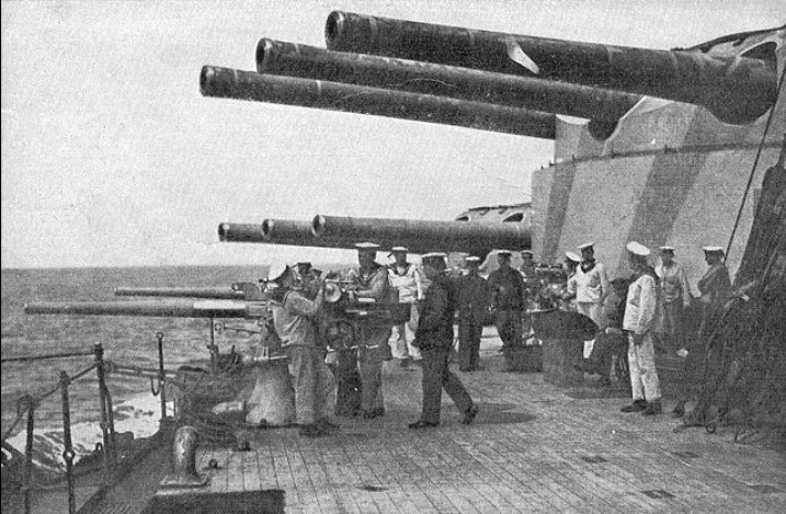 The cannons of SMS Tegetthoff in 1914